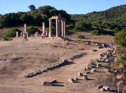 Temple of Antas at Fluminimaggiore